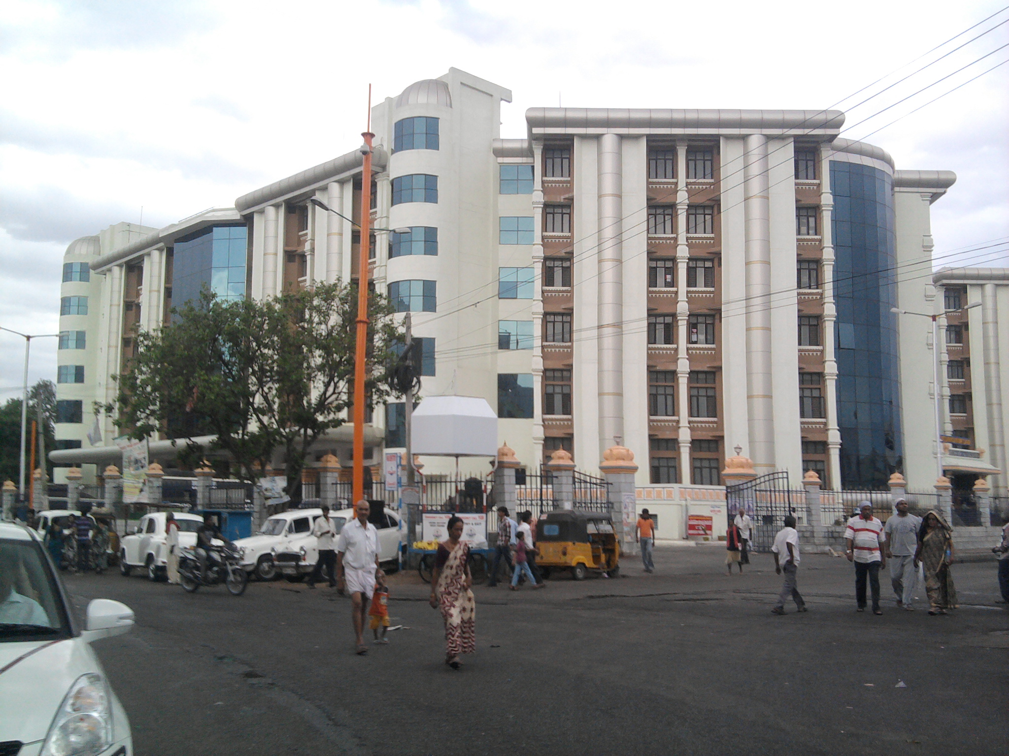 New Model Building in Tirupati, India